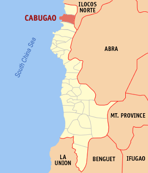 Map of Ilocos Sur showing the location of Cabugao